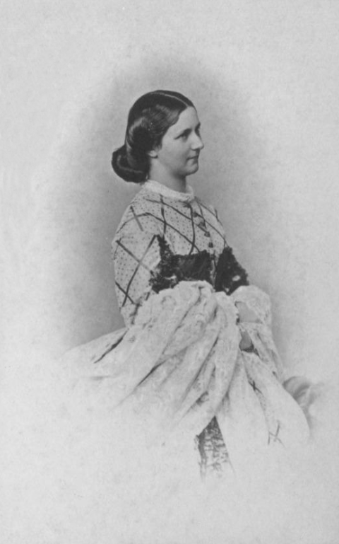 Carola of Vasa (later Queen of Saxony)